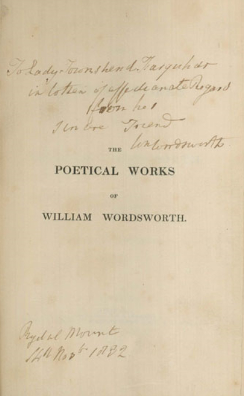 Inscription on a book of poetry by William Wordsworth to Lady Farquhar in 1832